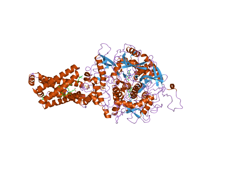 Cartoon representation of the molecular structure of protein registered with 1zp0 code.